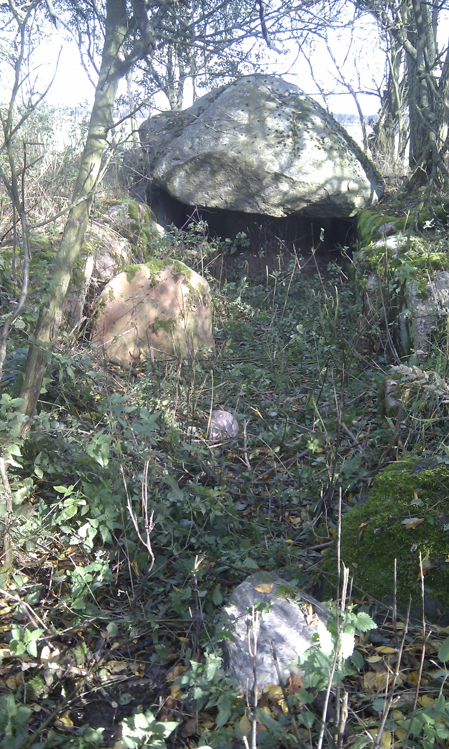 Großsteingrab Sassen 2